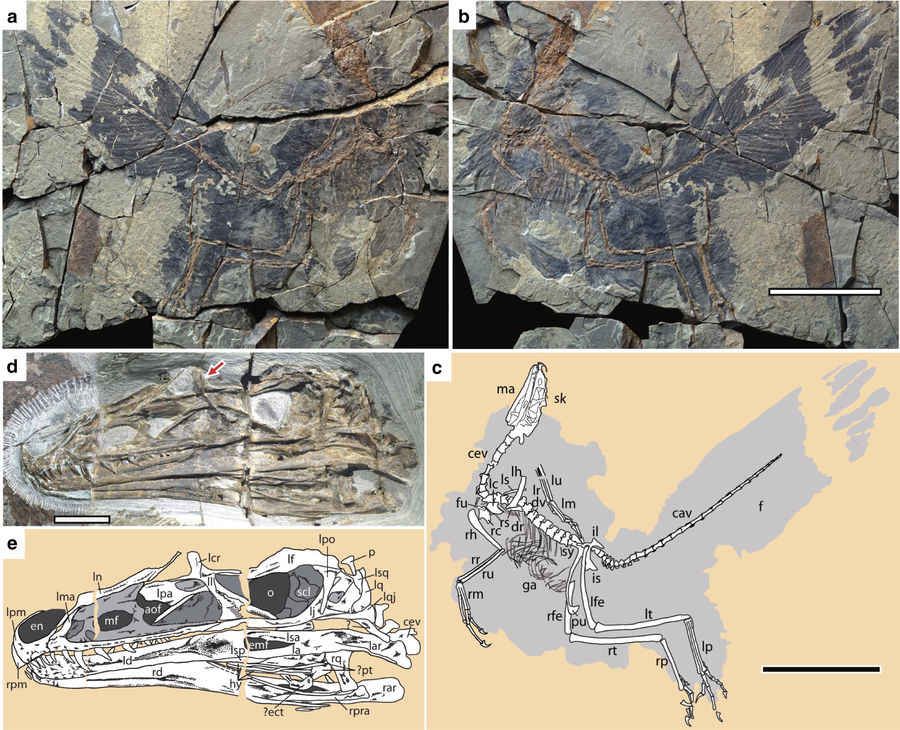 Caihong juji holotype specimen (PMoL-B00175). Photographs of the slab (a) and counter slab (b) and line drawing (c) of the specimen based on both slabs. Photograph (d) and line drawing (e) of a composite of the rostrum of the skull and mandible exposed on the counter slab and the post-rostrum cranium exposed on the slab. Arrows indicate lacrimal crests. Question mark indicates uncertain identification. Scale bars: 10 cm a–c, 1 cm d and e. aof antorbital fenestra, cav caudal vertebra, cev cervical vertebra, dr dorsal rib, dv dorsal vertebra, ect ectopterygoid, emf external mandibular fenestra, en external naris, f feather, fu furcula, ga gastralia, hy hyoid, il ilium, is ischium, la left angular, lar left articular, lc left coracoid, lcr lacrimal crest, ld left dentary, lf left, frontal, lfe left femur, lh left humerus, lj left jugal, ll left lacrimal, lma left maxilla, lm left manus, ln left nasal, lp left pes, lpa left palatine, lpo left postorbital, lq left quadrate, lqj left quadratojugal, lr left radius, ls left scapula, lsp left splenial, lsa left surangular, lsq left squamosal, lt left tibiotarsus, lu left ulna, ma mandible, mf maxillary fenestra, o orbit, p parietal, pm premaxilla, pt pterygoid, pu pubis, rar right articular, rc right coracoid, rd right dentary, rfe right femur, rh right humerus, rm right manus, rp right pes, rpra right prearticular, rq right quadrate, rr right radius, rs right scapula, rt right tibiotarsus, ru right ulna, scl sclerotic bones, sk skull, sy synsacrum